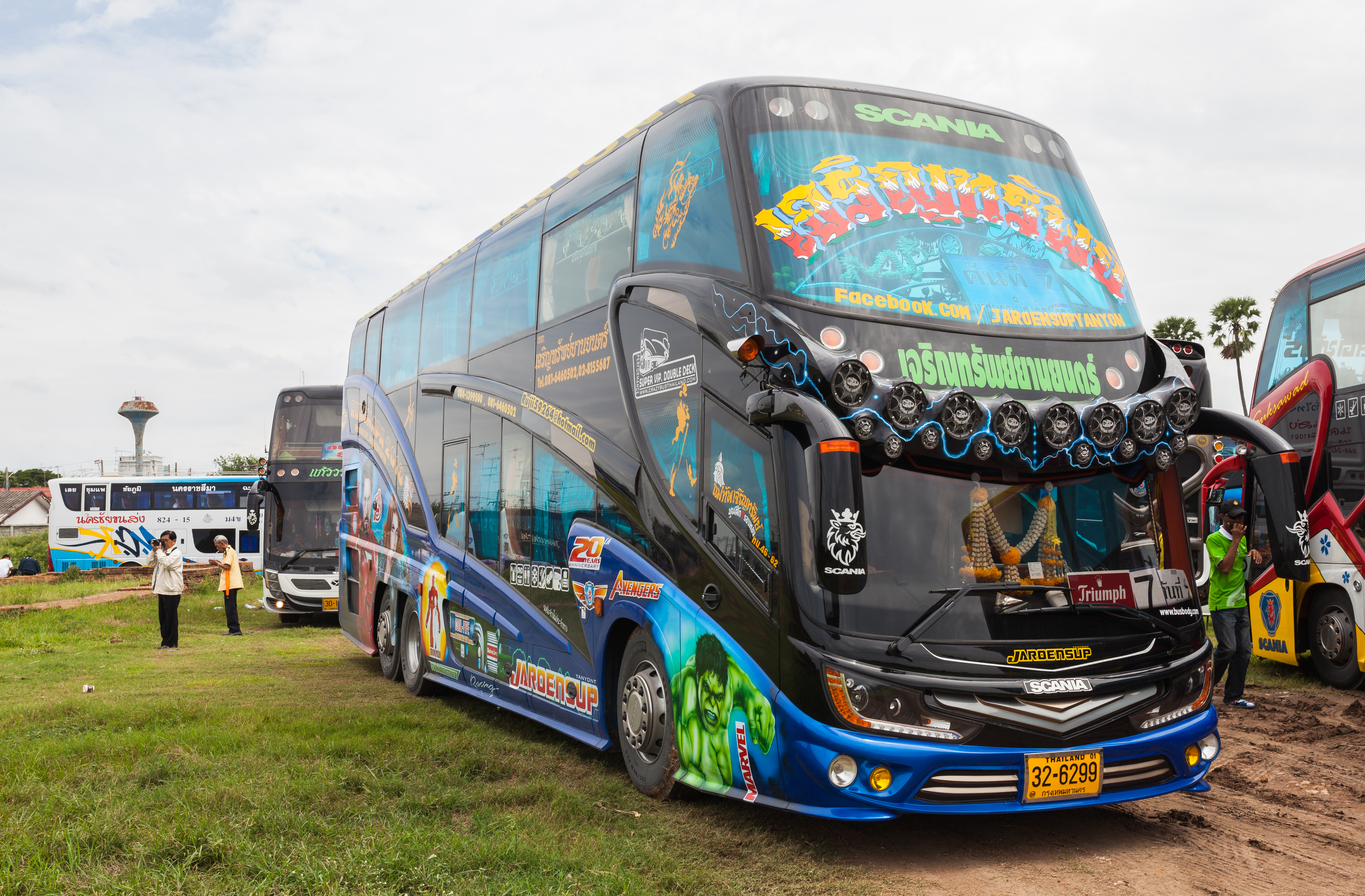 Bus, Ayutthaya, Thailand